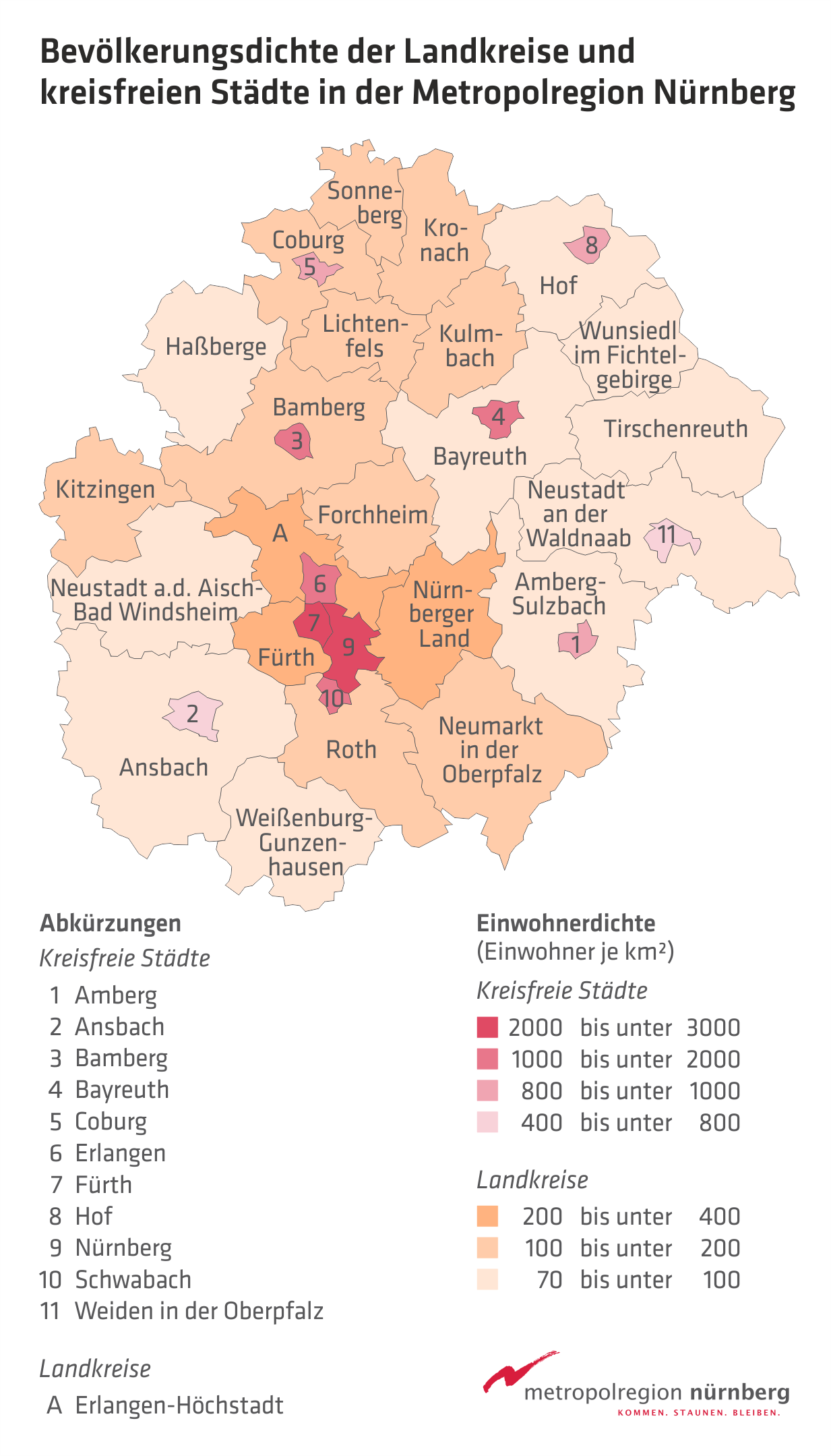 Population density of Districts and urban districts of Nuremberg Metropolitan Region